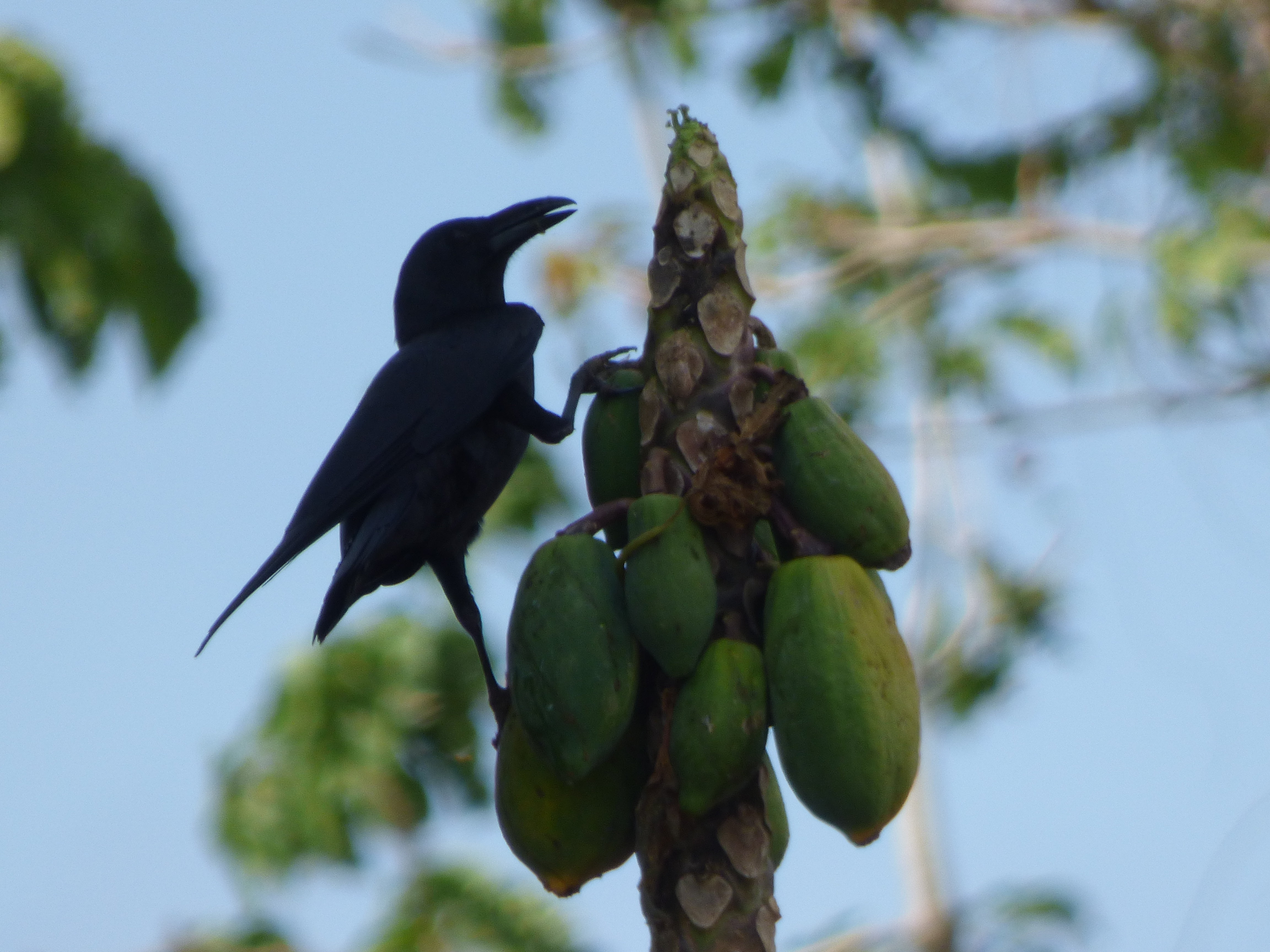 Silhouette of slender-billed crow (Corvus enca) feeding on green papaya, northern part of Buton Island, Southeast Sulawesi, Indonesia